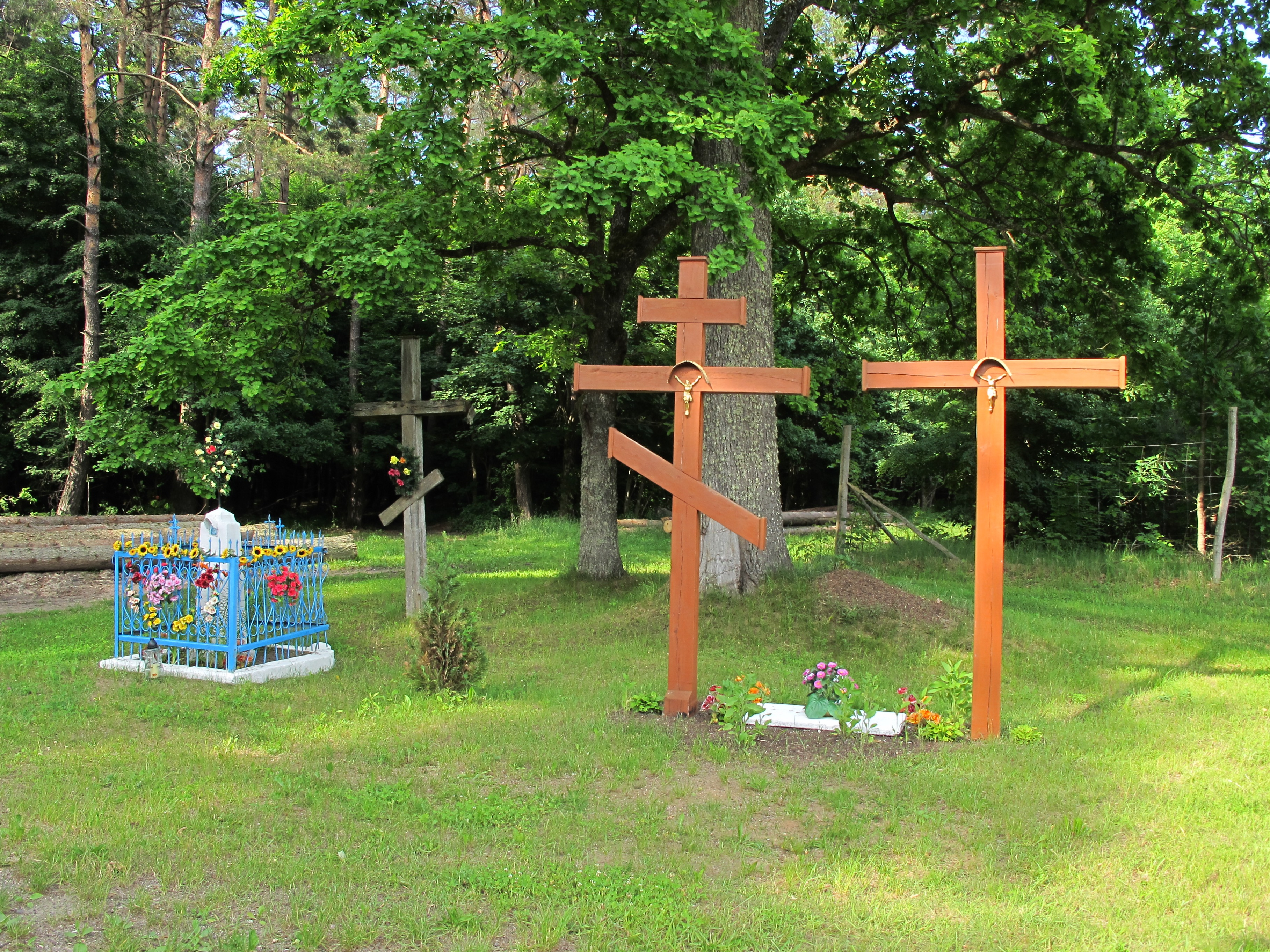 Crosses by the entrance to Stare Masiewo village, gmina Narewka, podlaskie, Poland